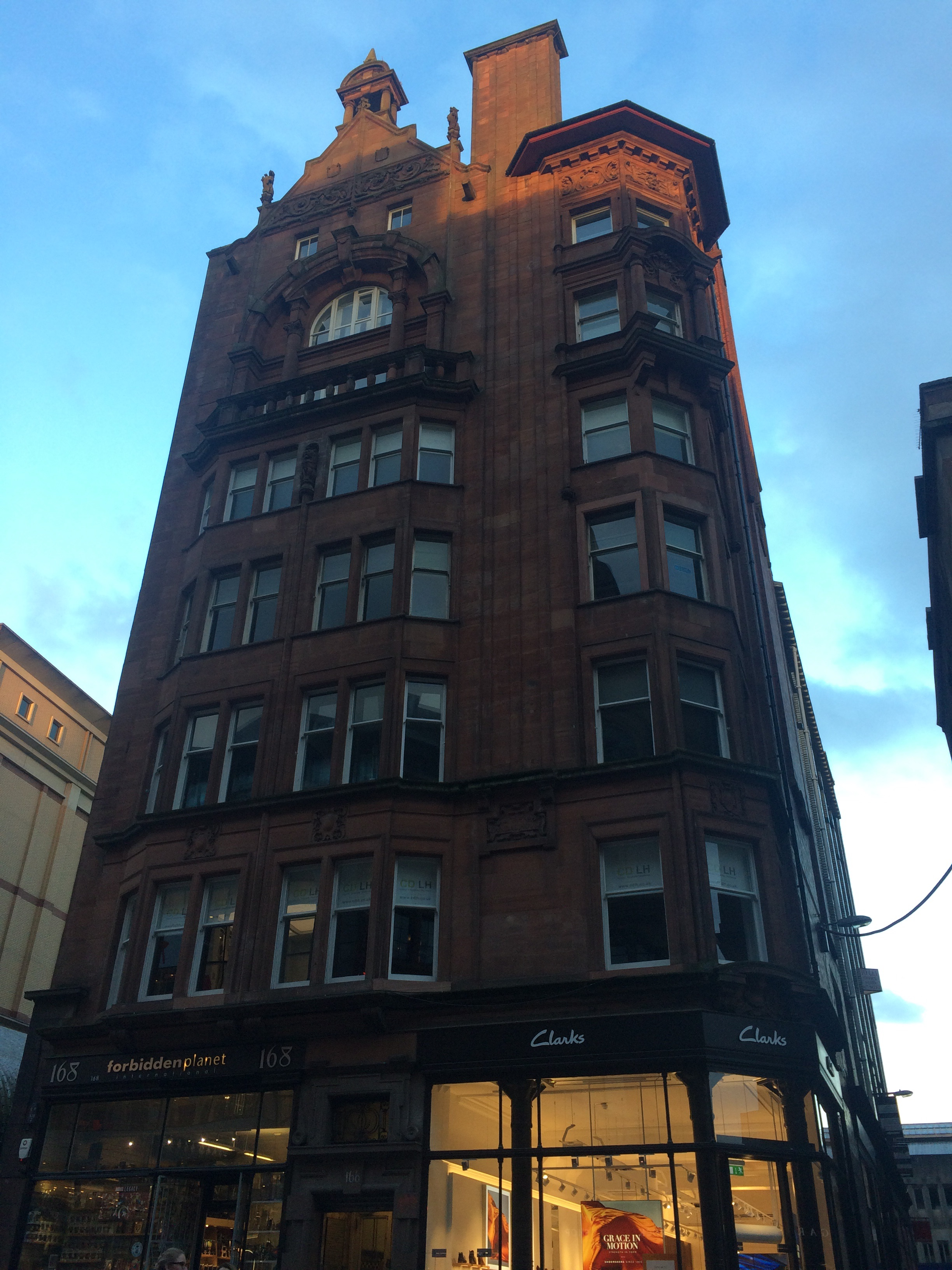 164a, 166, 168 Buchanan Street, Britannia Building Wikidata has entry Q17578577 with data related to this item.